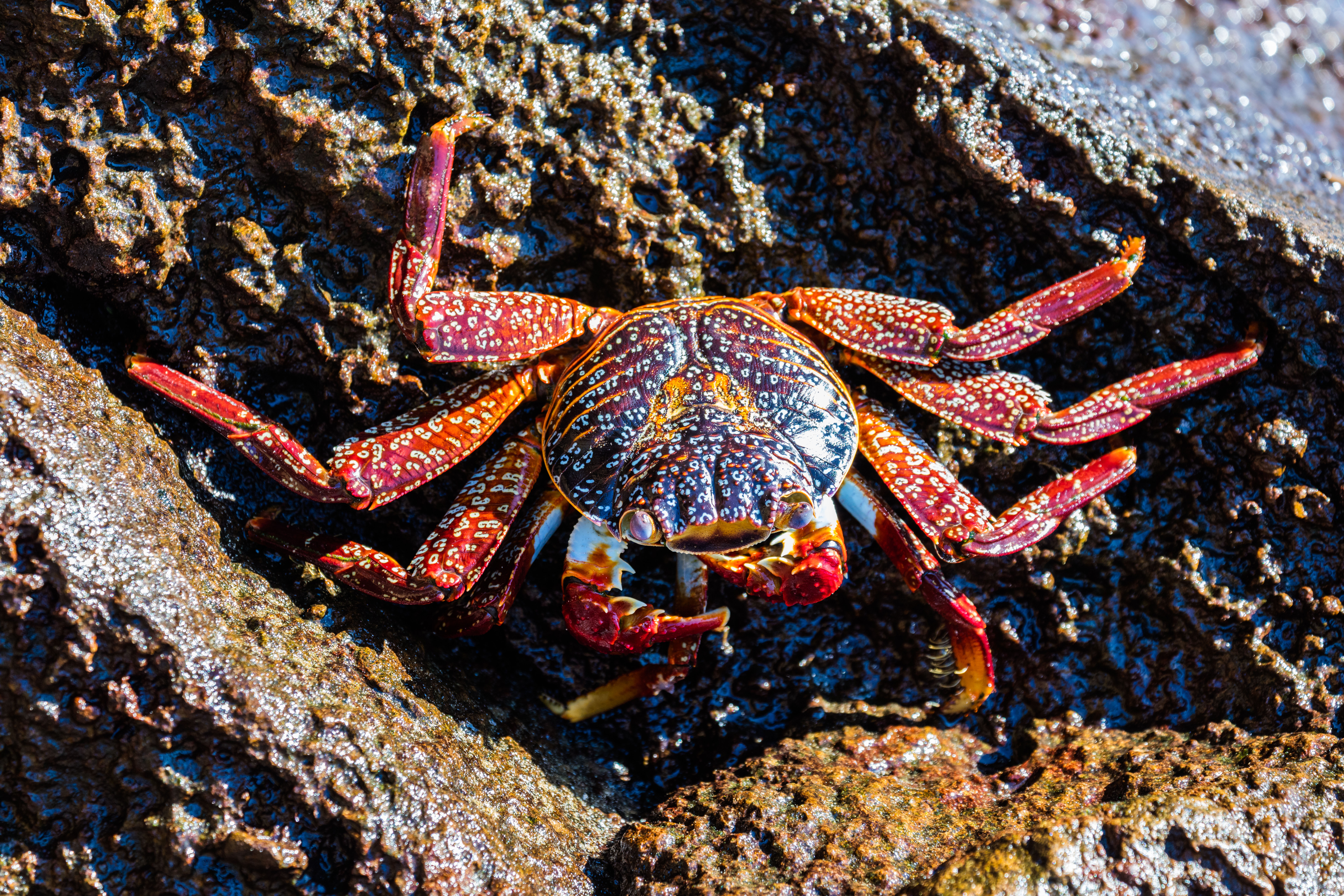 Red rock crab (Grapsus grapsus), Cerro Brujo, San Cristobal Island, Galapagos Islands, Ecuador